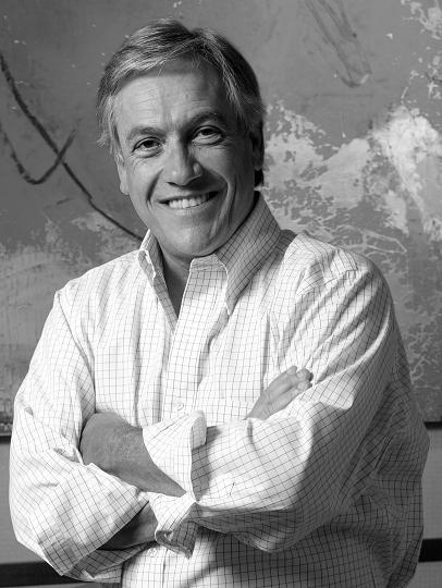 Sebastián Piñera, Chilean politician and economist.